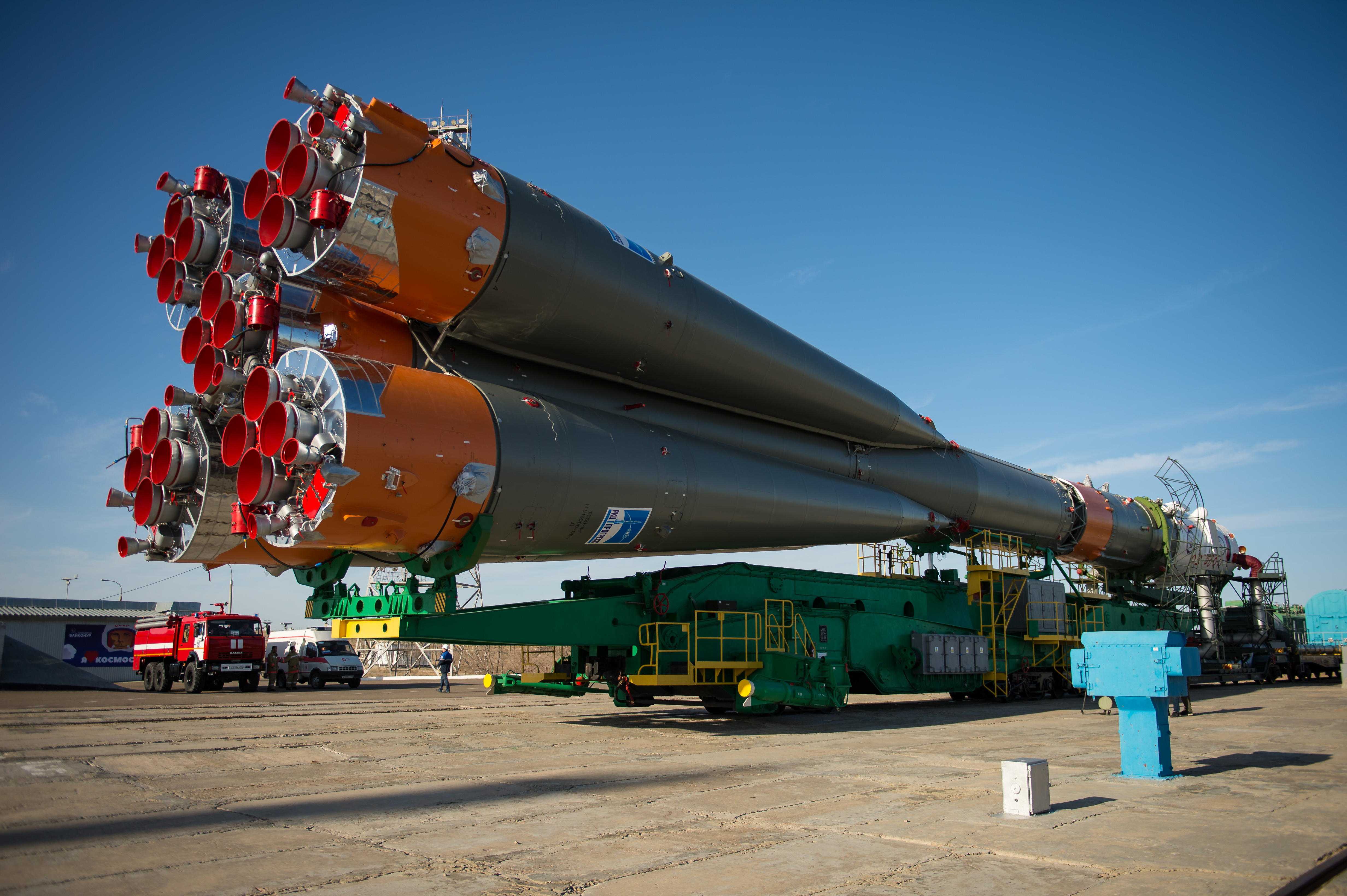 The Soyuz MS-04 spacecraft arrives at the launch pad after being rolled there by train on Monday, April 17, 2017 at the Baikonur Cosmodrome in Kazakhstan. Launch of the Soyuz rocket is scheduled for April 20 and will carry Expedition 51 Soyuz Commander Fyodor Yurchikhin of Roscosmos and Flight Engineer Jack Fischer of NASA into orbit to begin their four and a half month mission on the International Space Station.